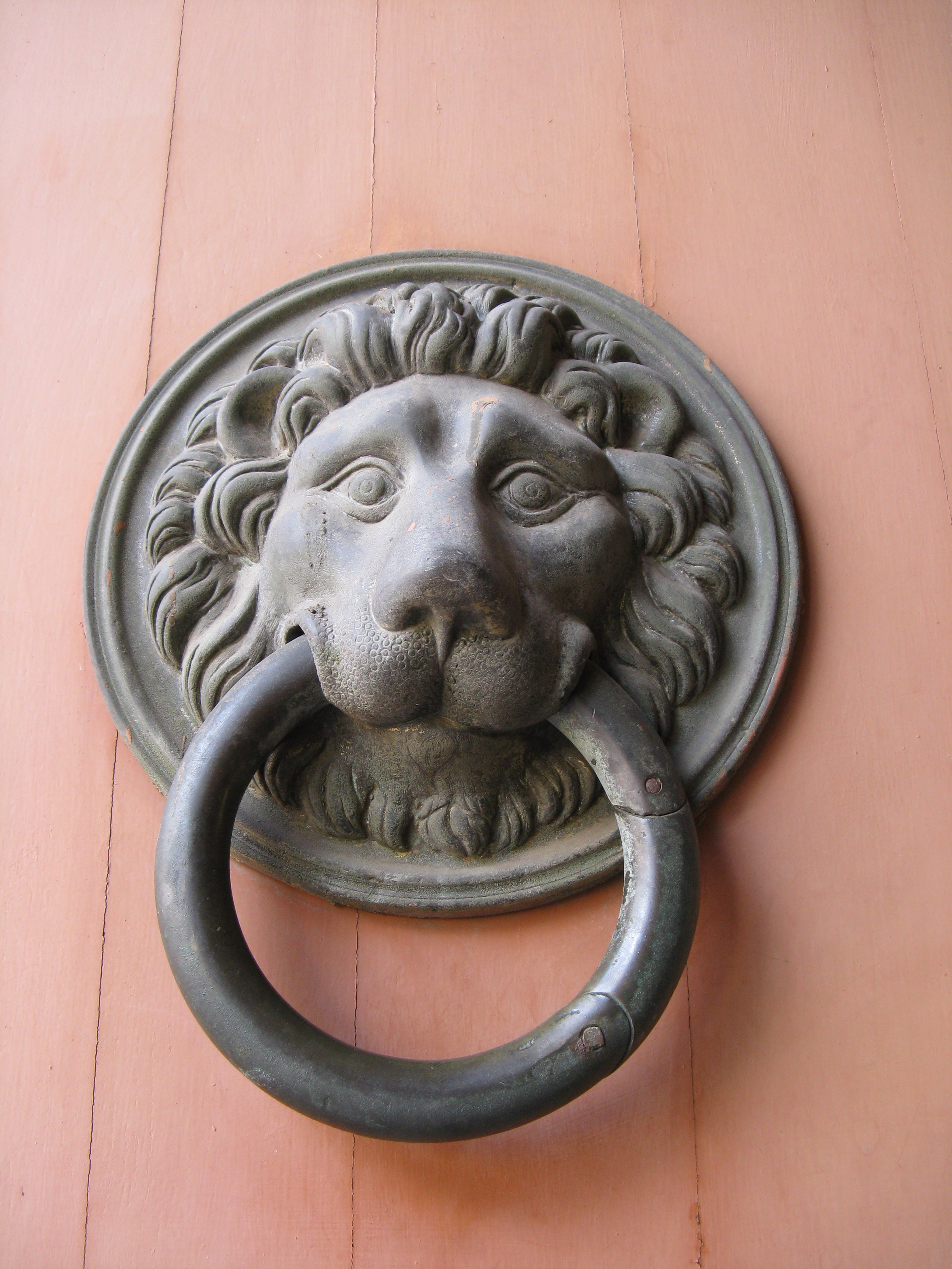 Gates of Fazola Henrik, Eger